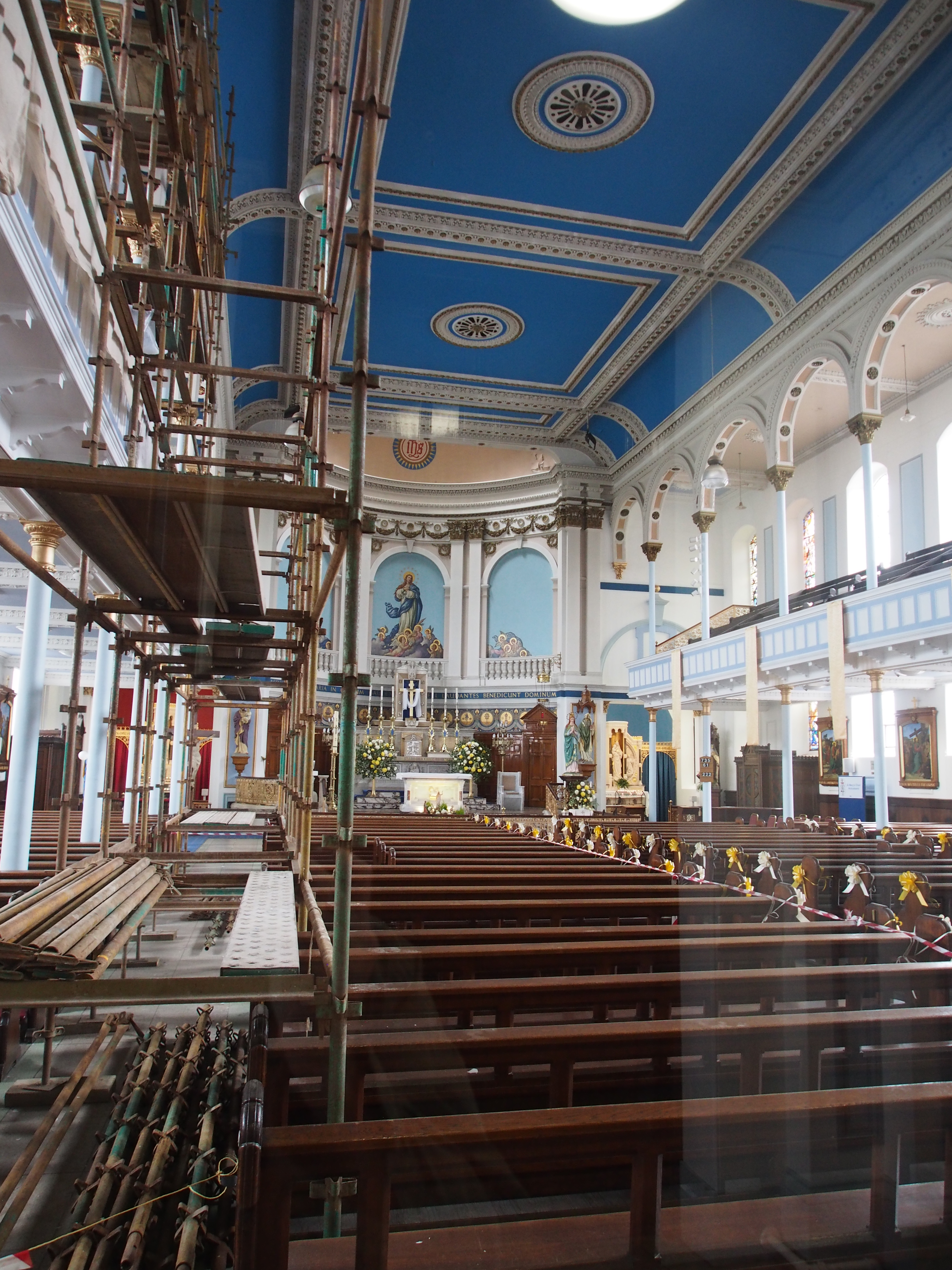 Interior of St Mary's. Some scaffolding has been placed inside for repair/renovation.